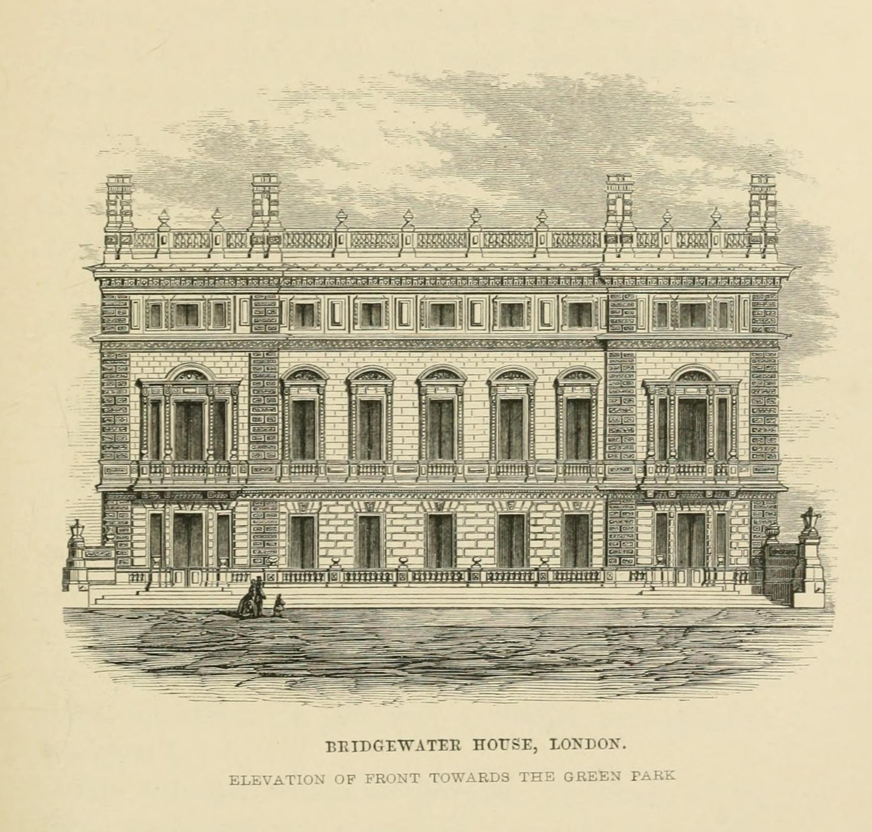 Bridgewater house. London